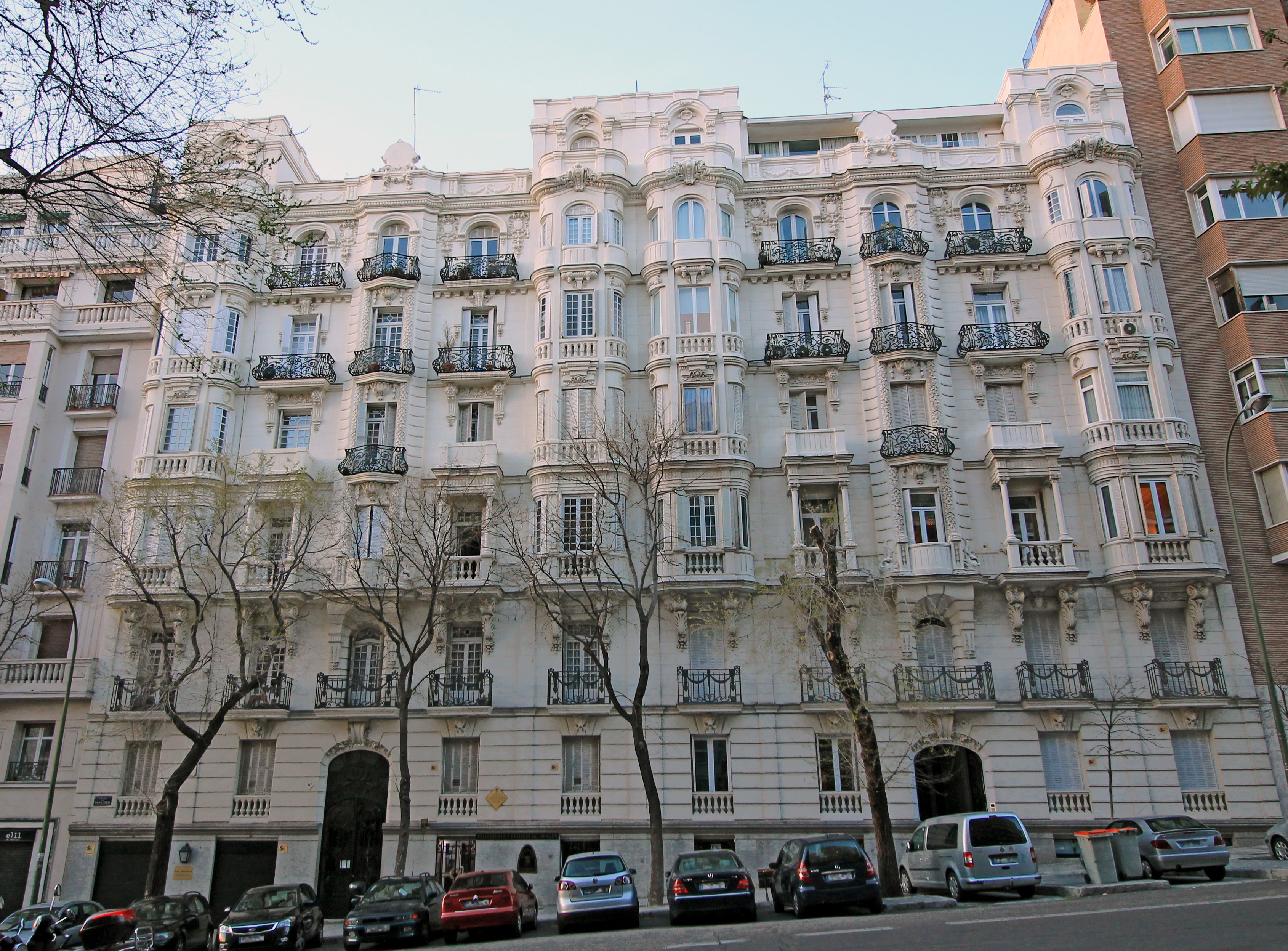 Housing designed in 1913 by architect Emilio Antón Hernández and built from 1914 to 1915. Writer Ramiro de Maeztu lived in it until his death in 1936.